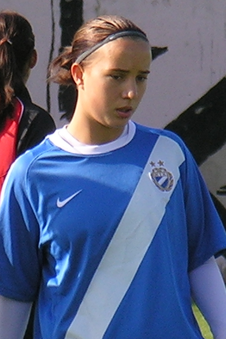 Fanny Vágó, Hungarian international football player Event: MTK–Viktória 0–0, in Budapest